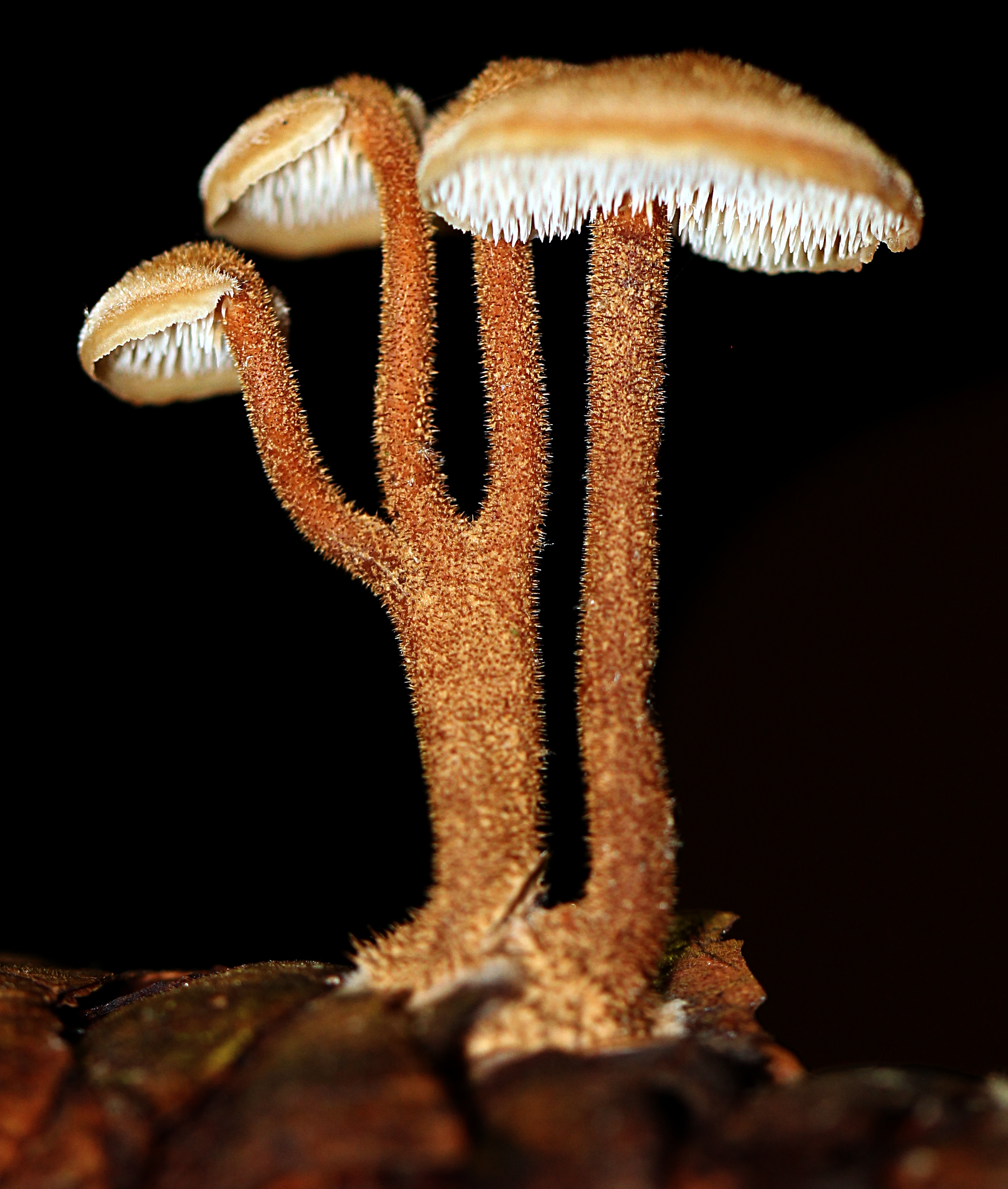 A fruit body of the "ear-pick fungus", species Auriscalpium vulgare Gray (1821). Specimen photographed in Louden Nelson Center, Santa Cruz, California, USA. "Notes: On a douglas fir cone."